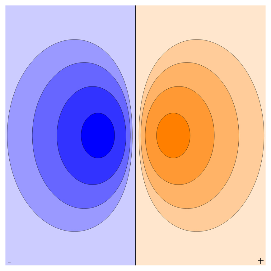 Contour Plot of an electric dipole. Caution: the aspect ratio was stretched, therefore the field is unphysical.